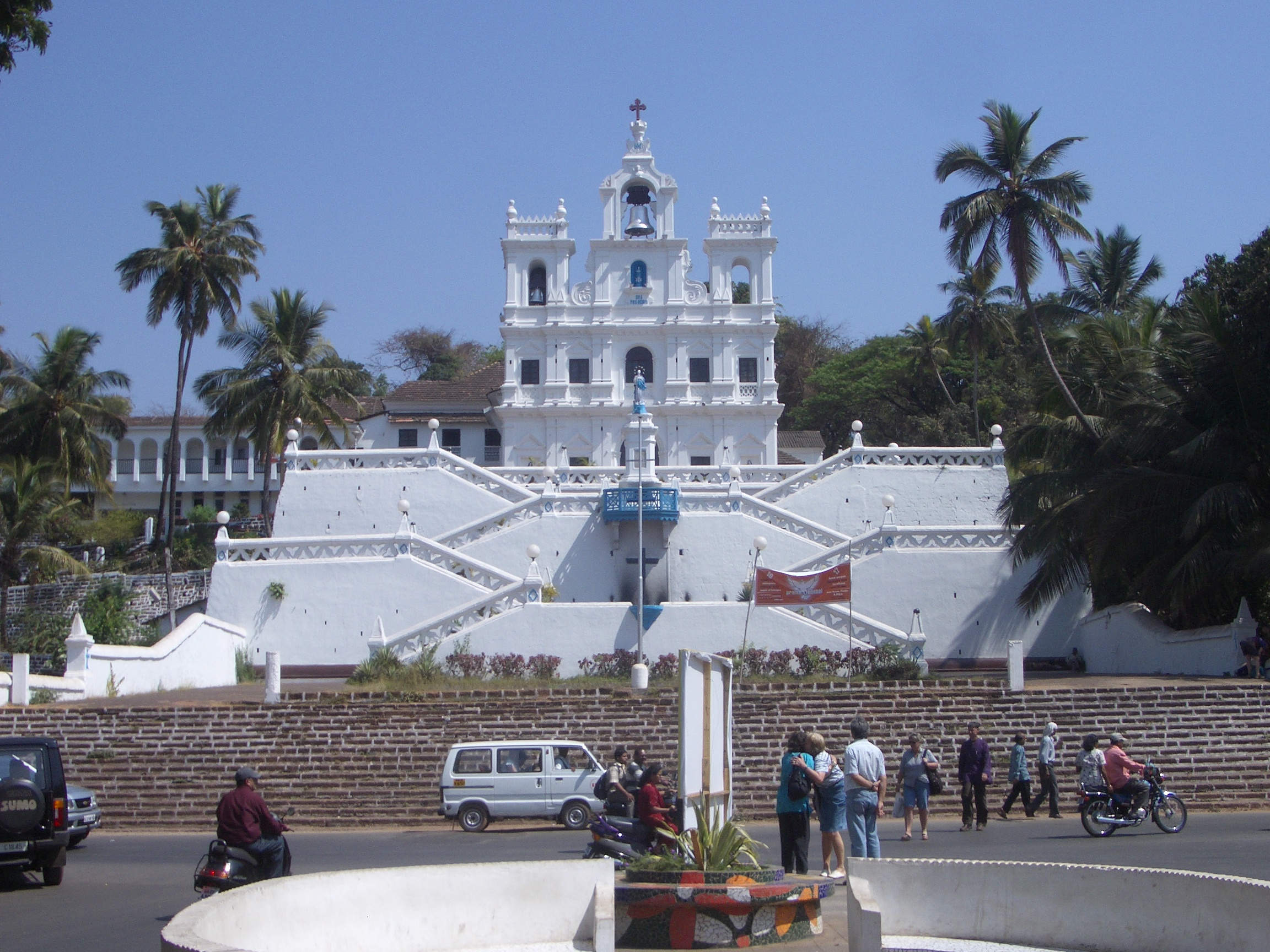 0438 Panaji - Church of Our Lady of the Immaculate Conception 2006-02-13 13-46-23